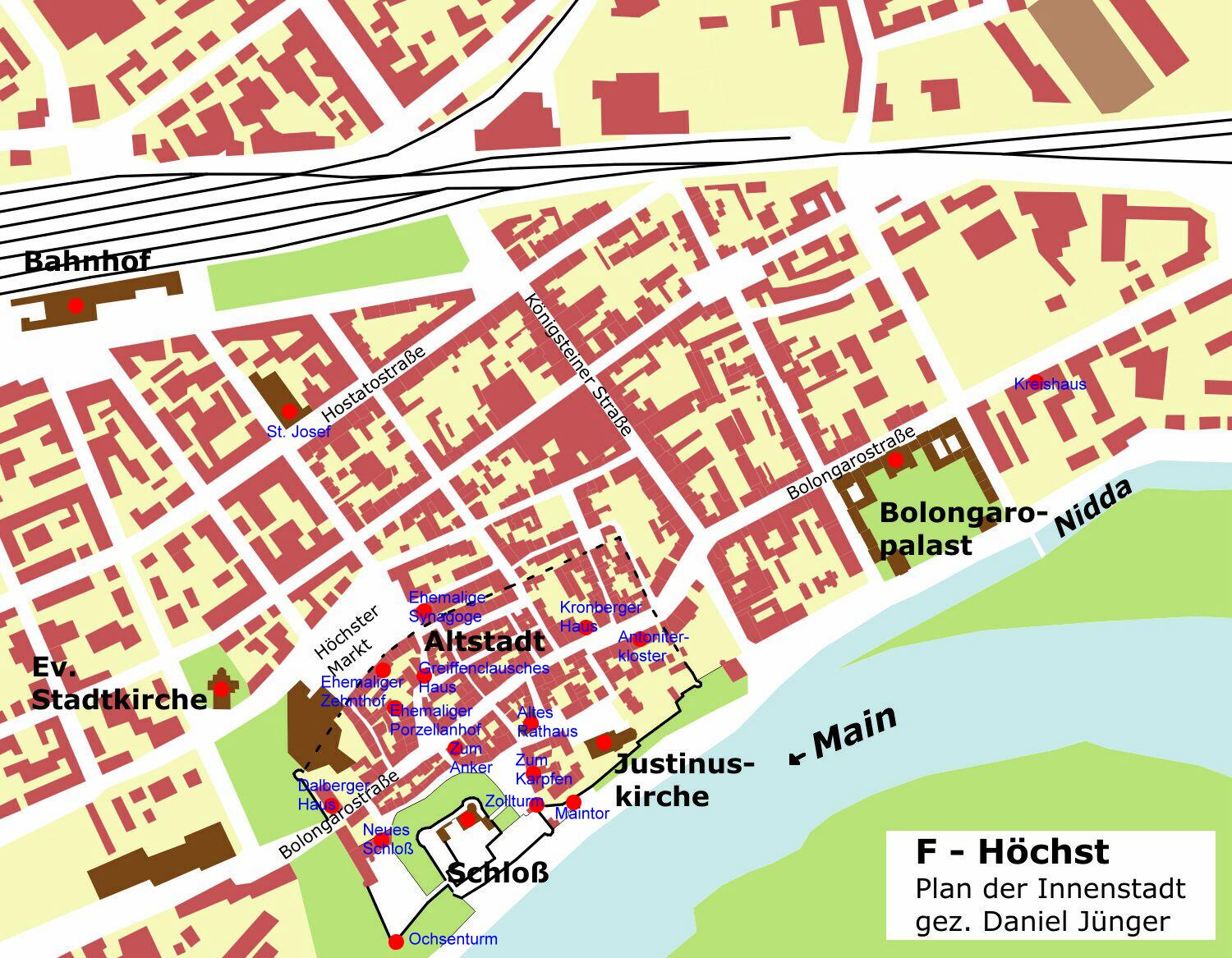 Map of ancient buildings in Frankfurt-Höchst